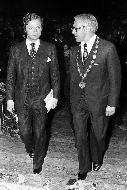 King Carl XVI Gustaf of Sweden & Sen. R. Stig Stefanson (& Märta Enbäck Stefanson visible behind them), as released by image creator FamSACPlace: City Hall (Stadshuset), Stockholm, Sweden